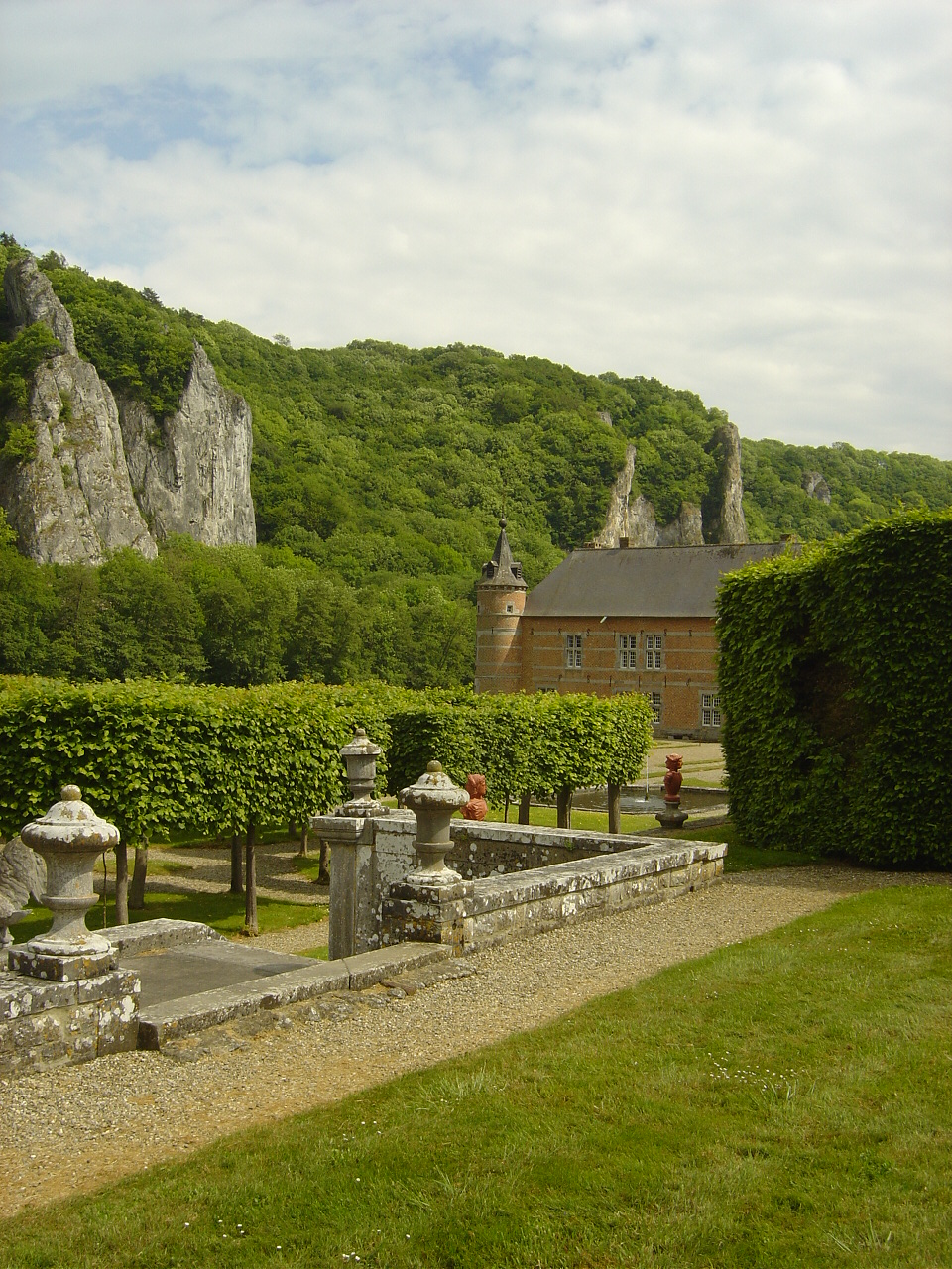 View on the castle of Freÿr (Waulsort) and its gardens (XVII/XVIIIth centuries) from the garden towards the Meuse and Freyr rock